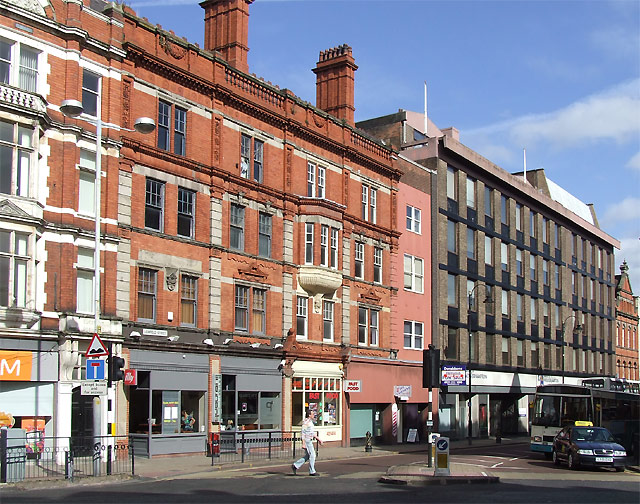 Ancient and Modern, Lichfield Street, Wolverhampton. Hopefully, no more of the fine facades of earlier centuries will be replaced by modern frontages seen further along this street in the city centre. 1684940